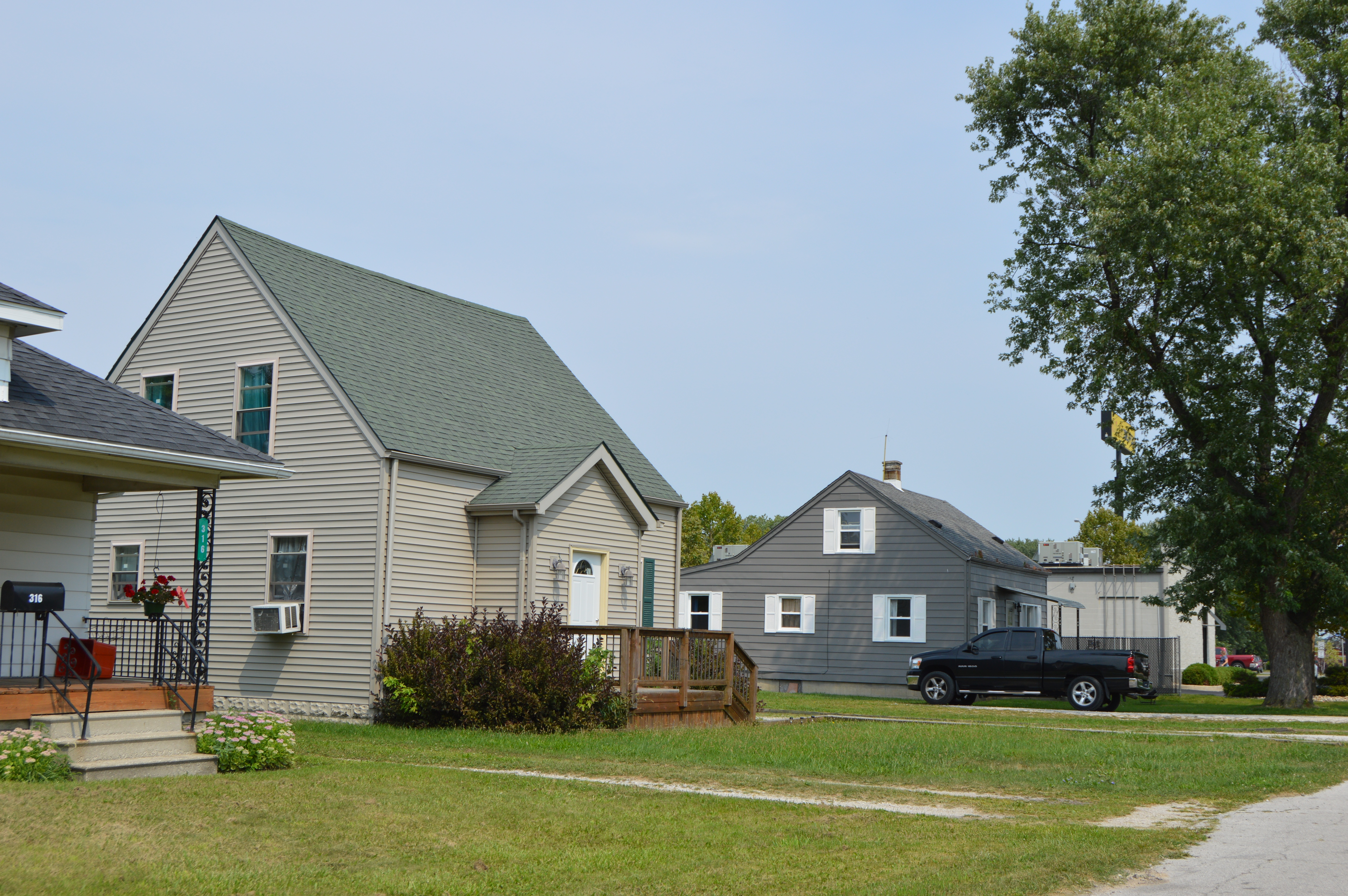 Houses on the northwestern side of Mary Avenue just southwest of the Woodville Road intersection in Northwood, Ohio, United States.